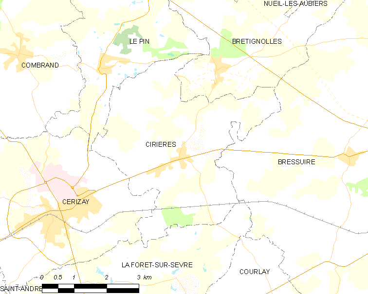 Map of French municipality Cirières